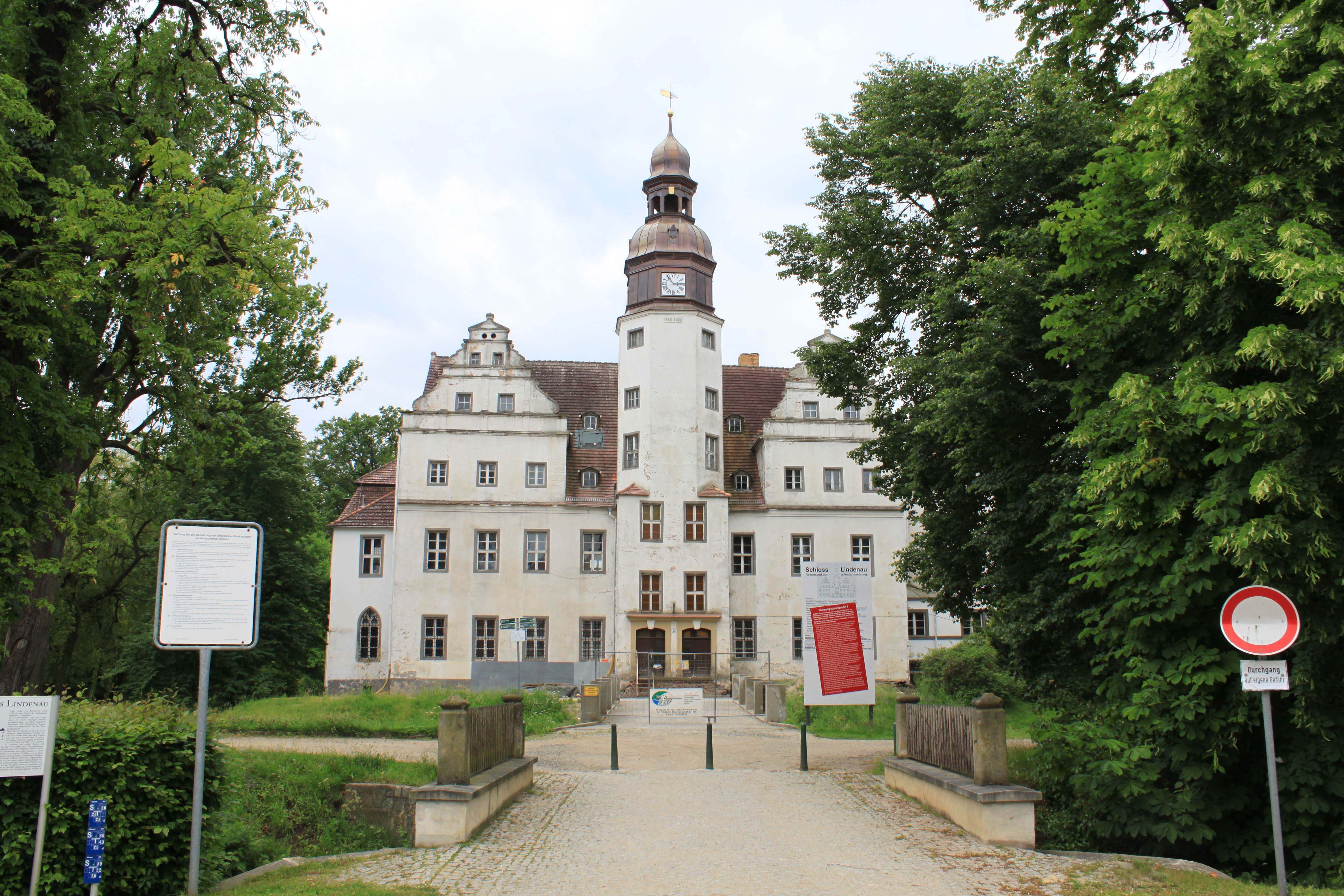 Castle Lindenau